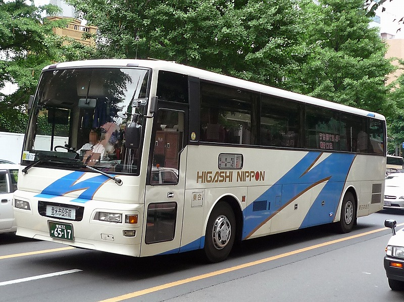 Higashinippon experss Isuzu Super Cruiser(FHI body) Highwaybus Sendai-Tome city(Sanuma,Miyagi)